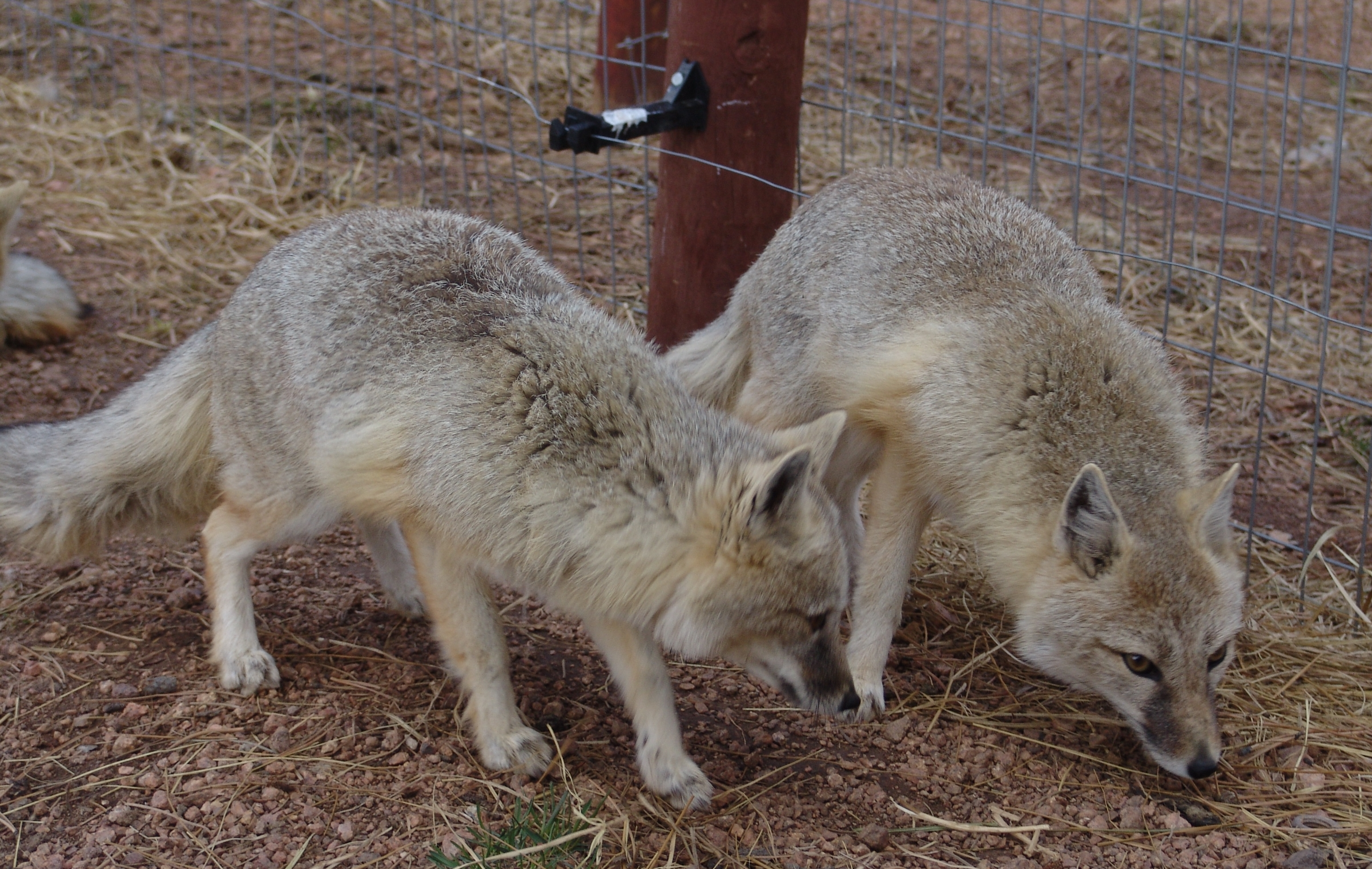 Swift fox (Vulpes velox) at the Colorado Wolf and Wildlife rescue center.